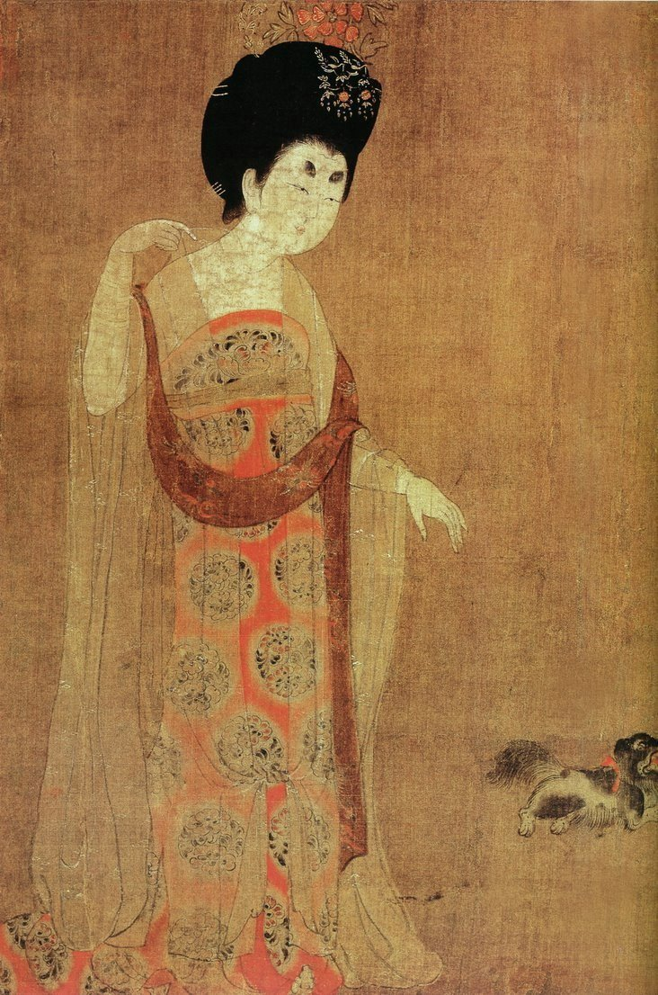 Zhou Fang. Court Ladies Wearing Flowered Headdresses. Detail 3.